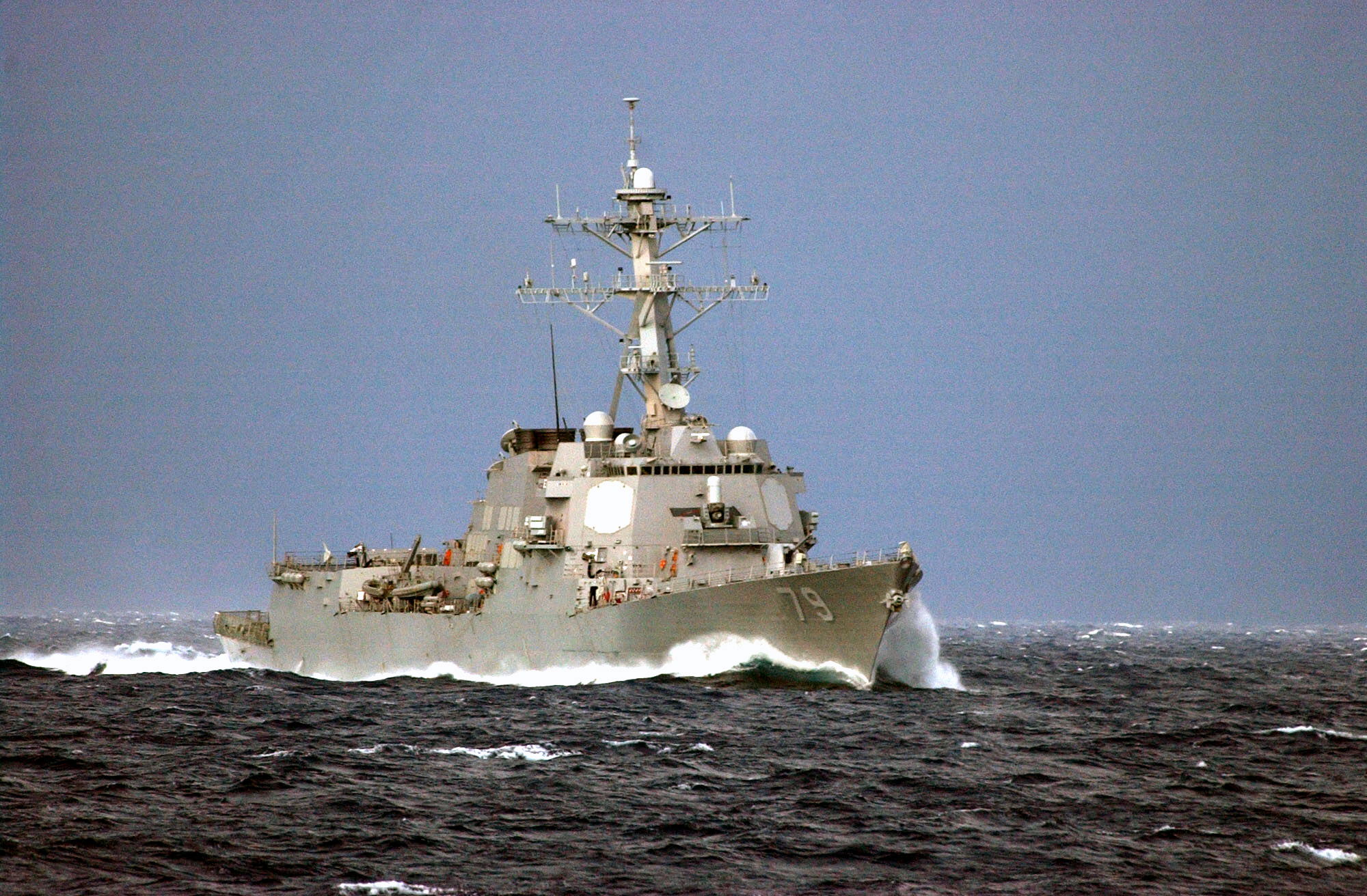 Atlantic Ocean (Oct. 28, 2002) -- The guided missile destroyer USS Oscar Austin (DDG 79) steams off the coast of Florida, while underway with the USS Harry S. Truman (CVN 75) Carrier Battle Group during a Joint Task Force Exercise (JTFEX). Guided missile destroyers operate in support of carrier battle groups, surface action, amphibious and replenishment groups and are multi-mission, anti-air, anti-surface, and anti-submarine warfare combatants. U. S. Navy photo by Photographer's Mate 1st Class Michael W. Pendergrass. (RELEASED)